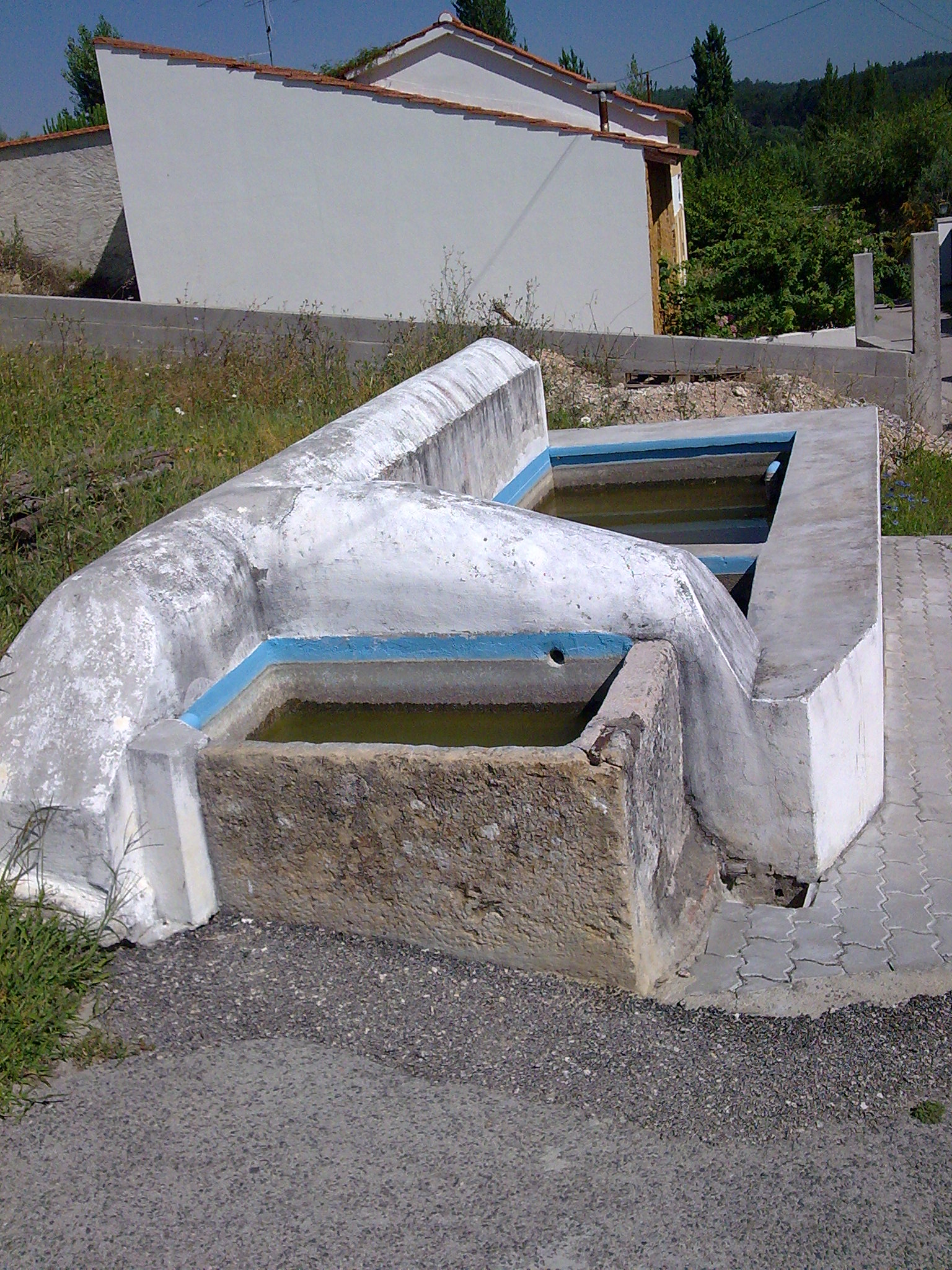 Wash-house of Chão de Maçãs, Sabacheira, Tomar